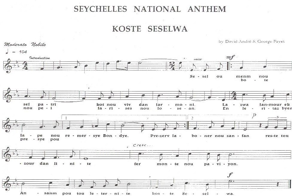 Sheet Music of the current anthem of Seychelles, Fyer Seselwa.